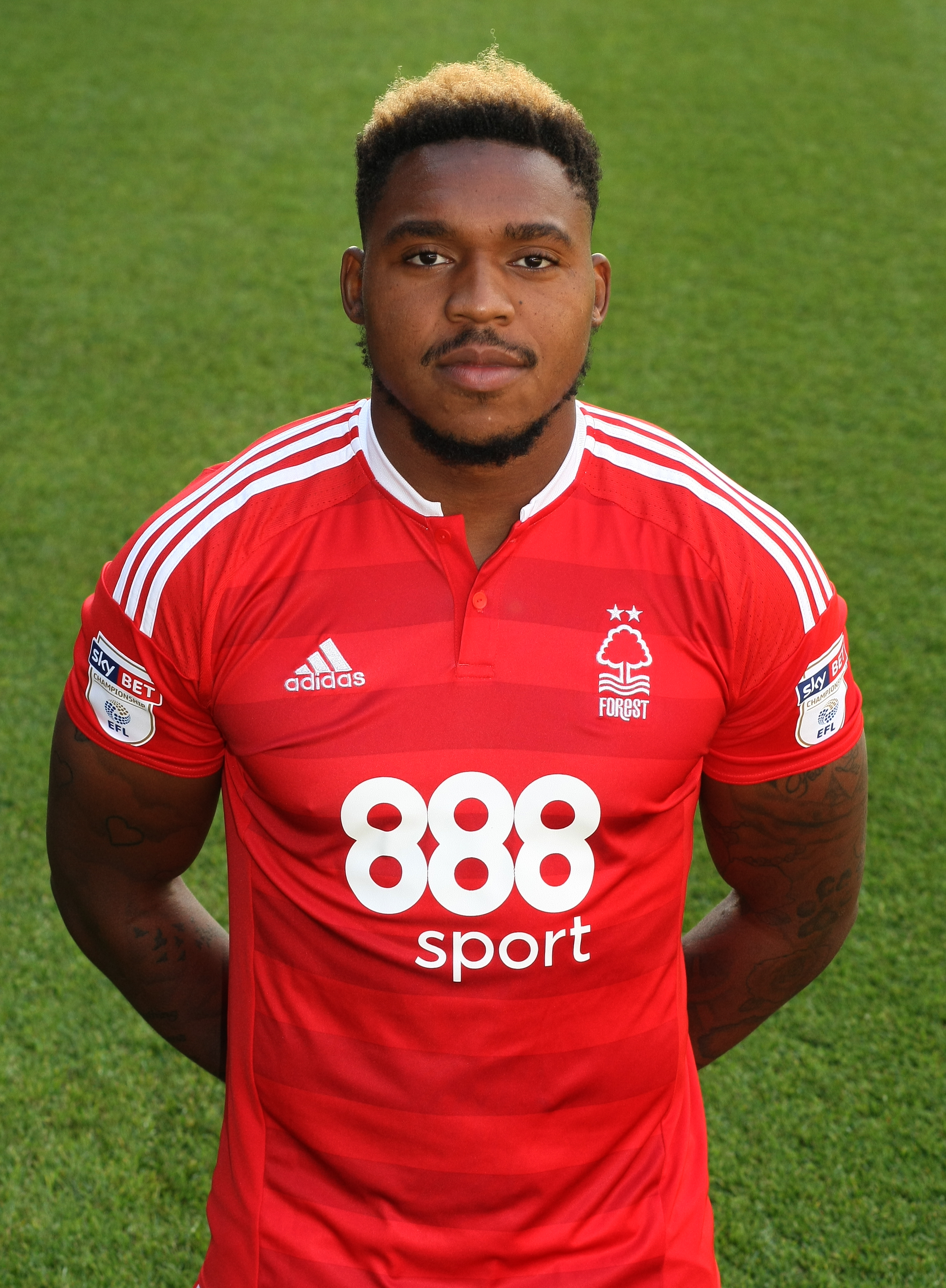 Britt Curtis Assombalonga pictured in Nottingham Forest kit.